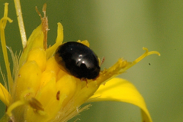 Picture taken in Commanster, Belgian High Ardennes . Species: Apteropeda orbiculata